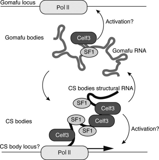 Model of the molecular mechanism of Gomafu. Gomafu forms RNA–protein complexes containing the splicing factors SF1 and Celf3. These splicing factors assemble on transcription sites of specific RNAs to form CS bodies. Gomafu may sequester Celf3 and SF1 and control their dynamics in the nucleus. Celf3 may also affect the expression of other genes such as structural RNA in the CS bodies through the association with their transcripts.